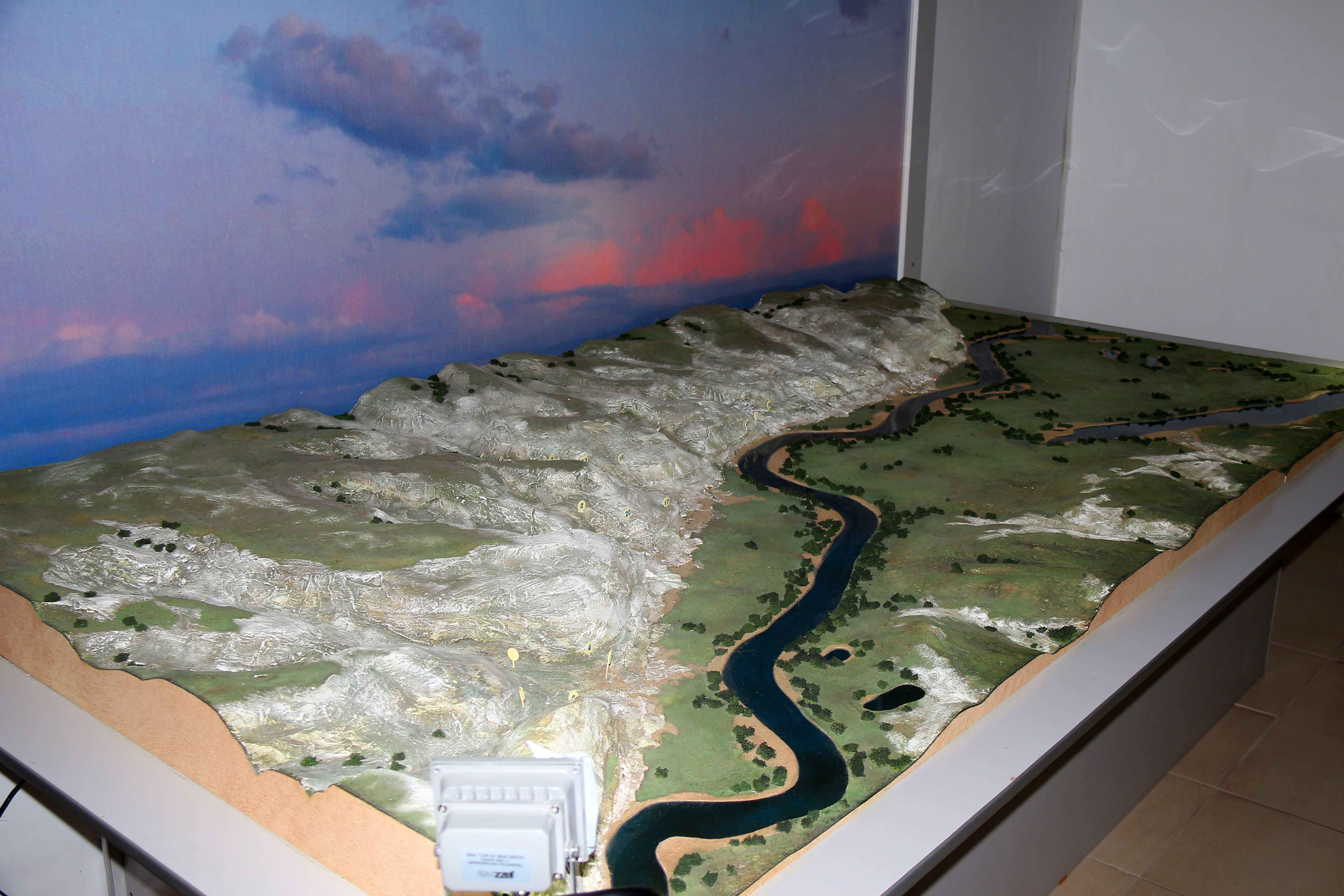 Kostenky model.